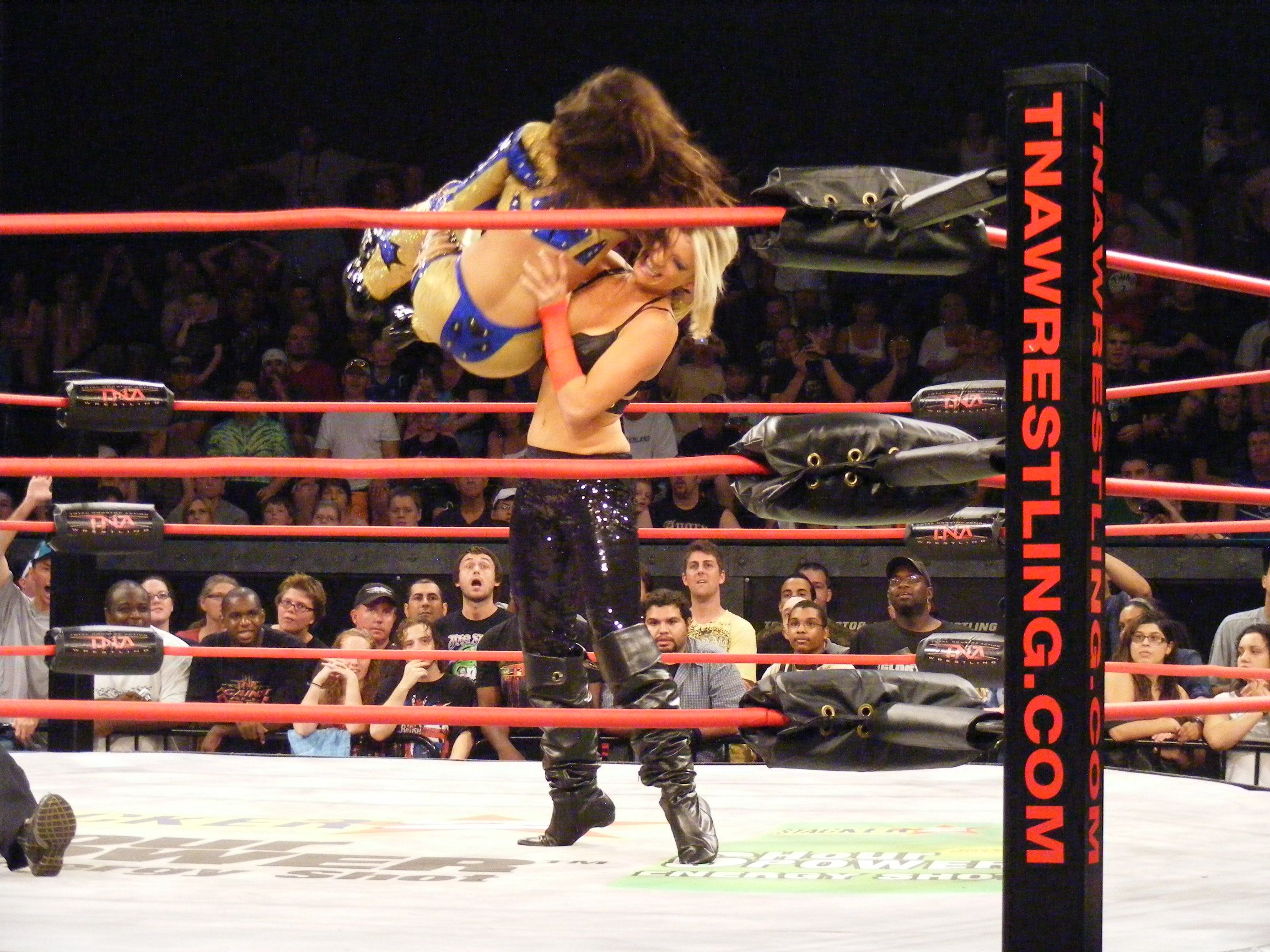 Lacey Von Erich hits a chokeslam on Sarita during a TNA Impact Taping.